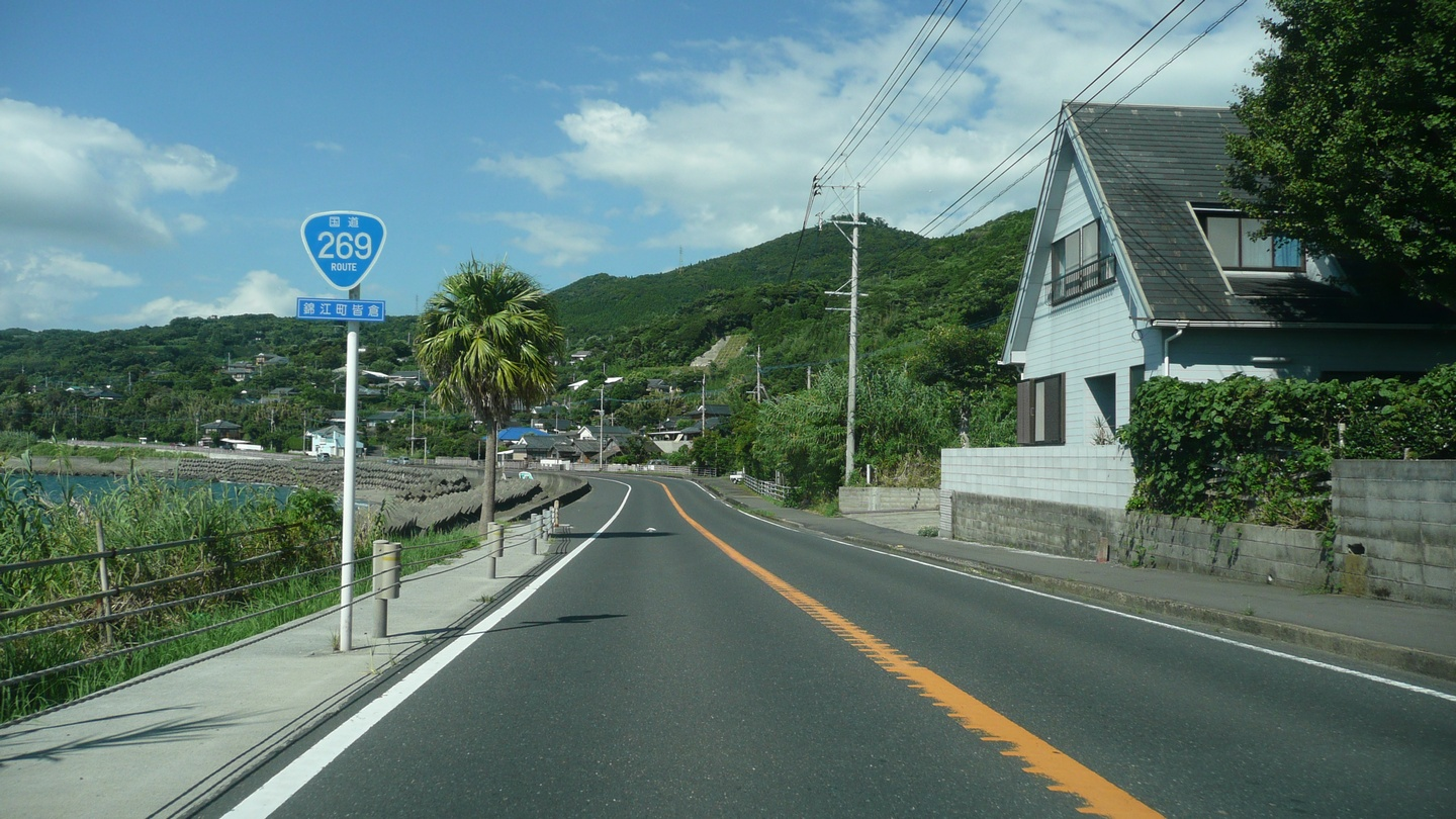 National Route 269 (Kinko Town, Kagoshima, Japan)